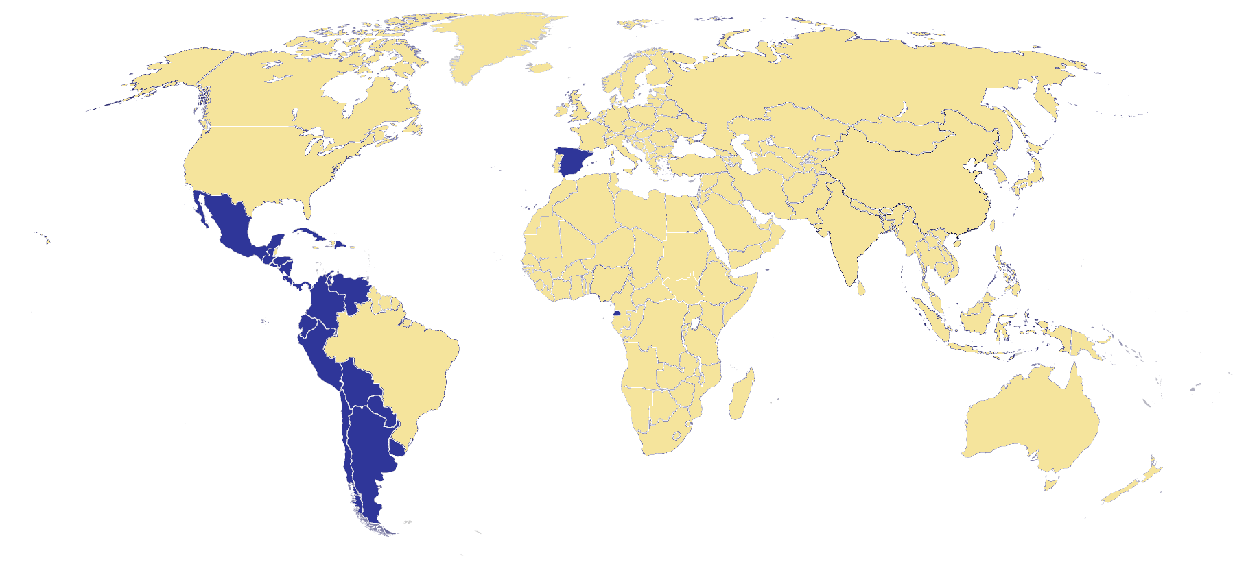 This map shows, in blue color, the countries where the Spanish Wikipedia is the most popular language version of Wikipedia. The information has been sourced from here